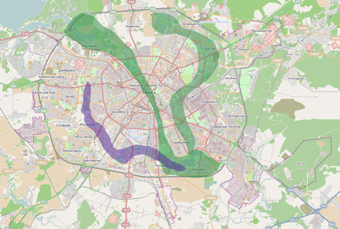 Scheme of Minsk water and greenery system in Minsk city (Belarus)